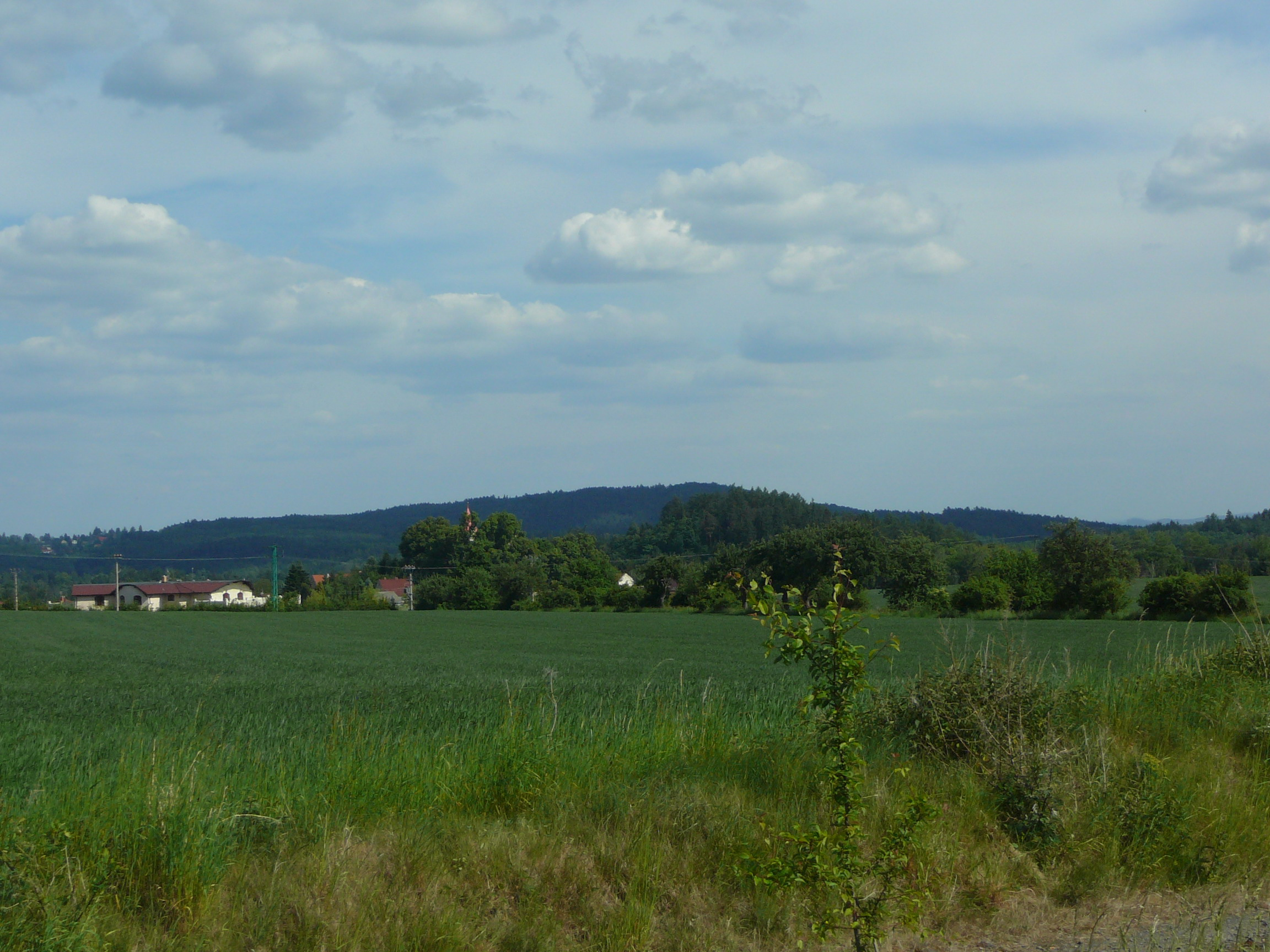 View of Vlková hill (521 m) from a trail near the village Kostelec u Křížků in Central Bohemia, the Czech Republic.